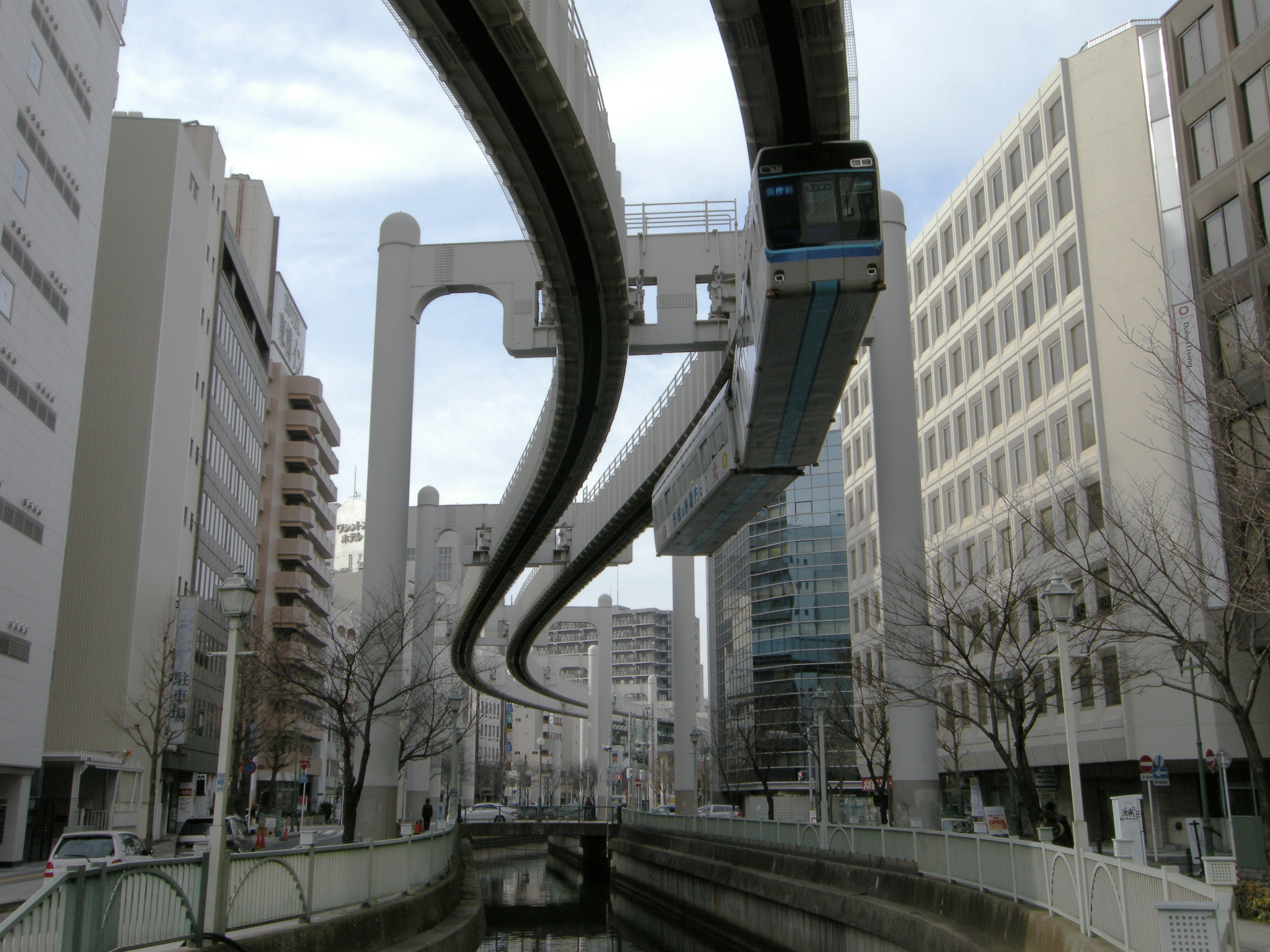 Chiba Urban Monorail Line 1